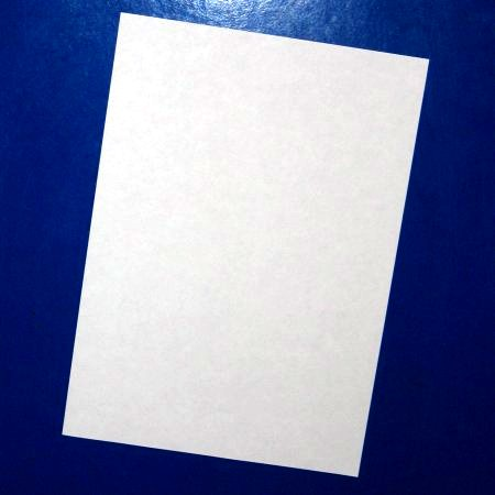 This picture shows a sheet of paper.